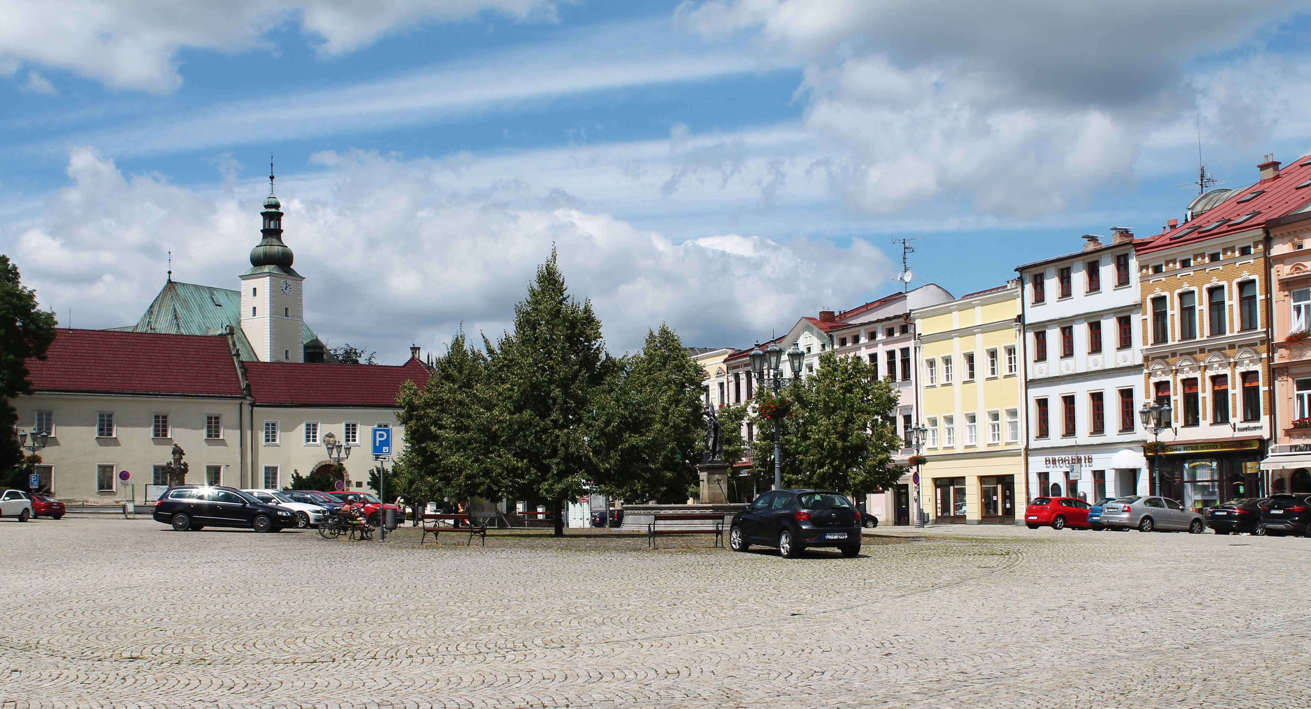 Frýdek, Frýdek-Místek, Frýdek-Místek District, Czech Republic